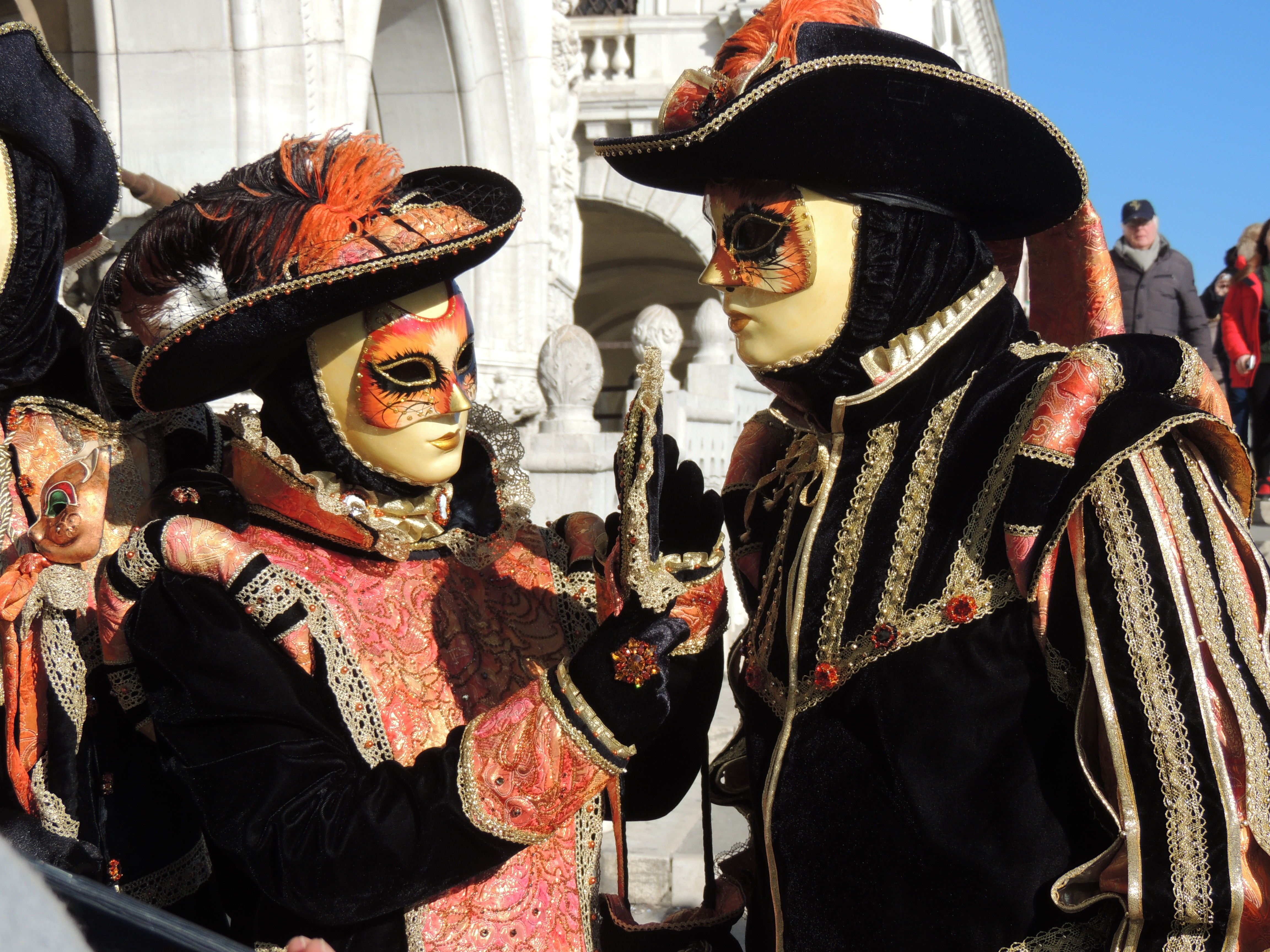 carnival Venice 2015